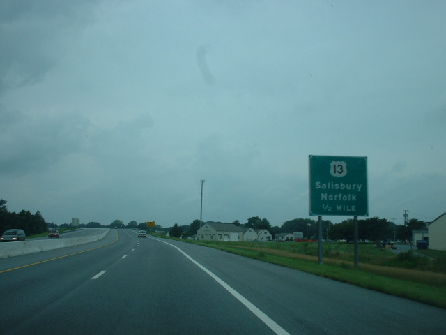 The Puncheon Run Connector westbound 1/2 mile to the intersection with U.S. Route 13 in Dover